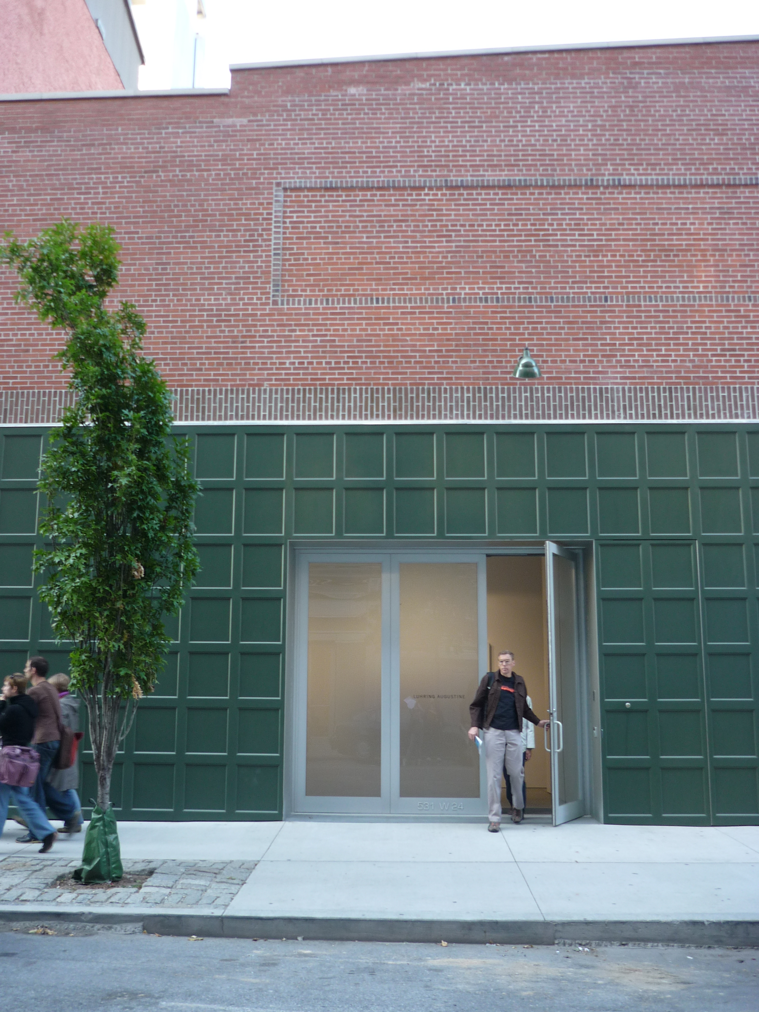 This photo is of Wikis Take Manhattan goal code D19, Luhring Augustine Gallery.